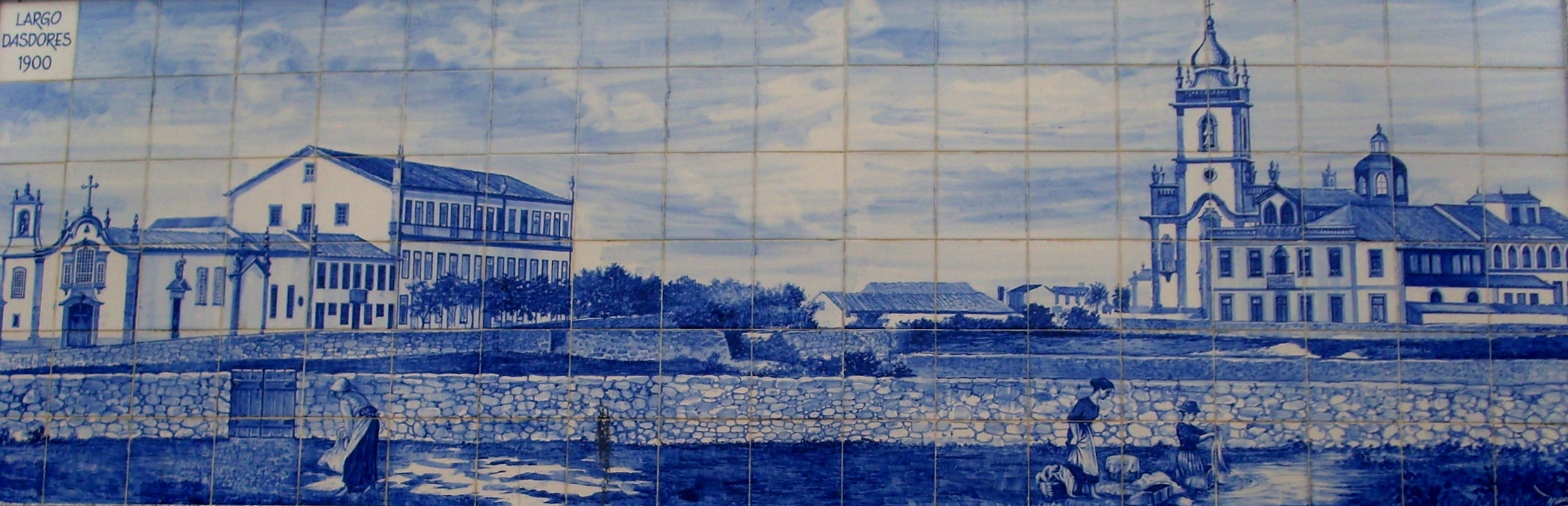 Senhora das Dores Square in 1900 as seen from farms. Povoa de Varzim - Portugal